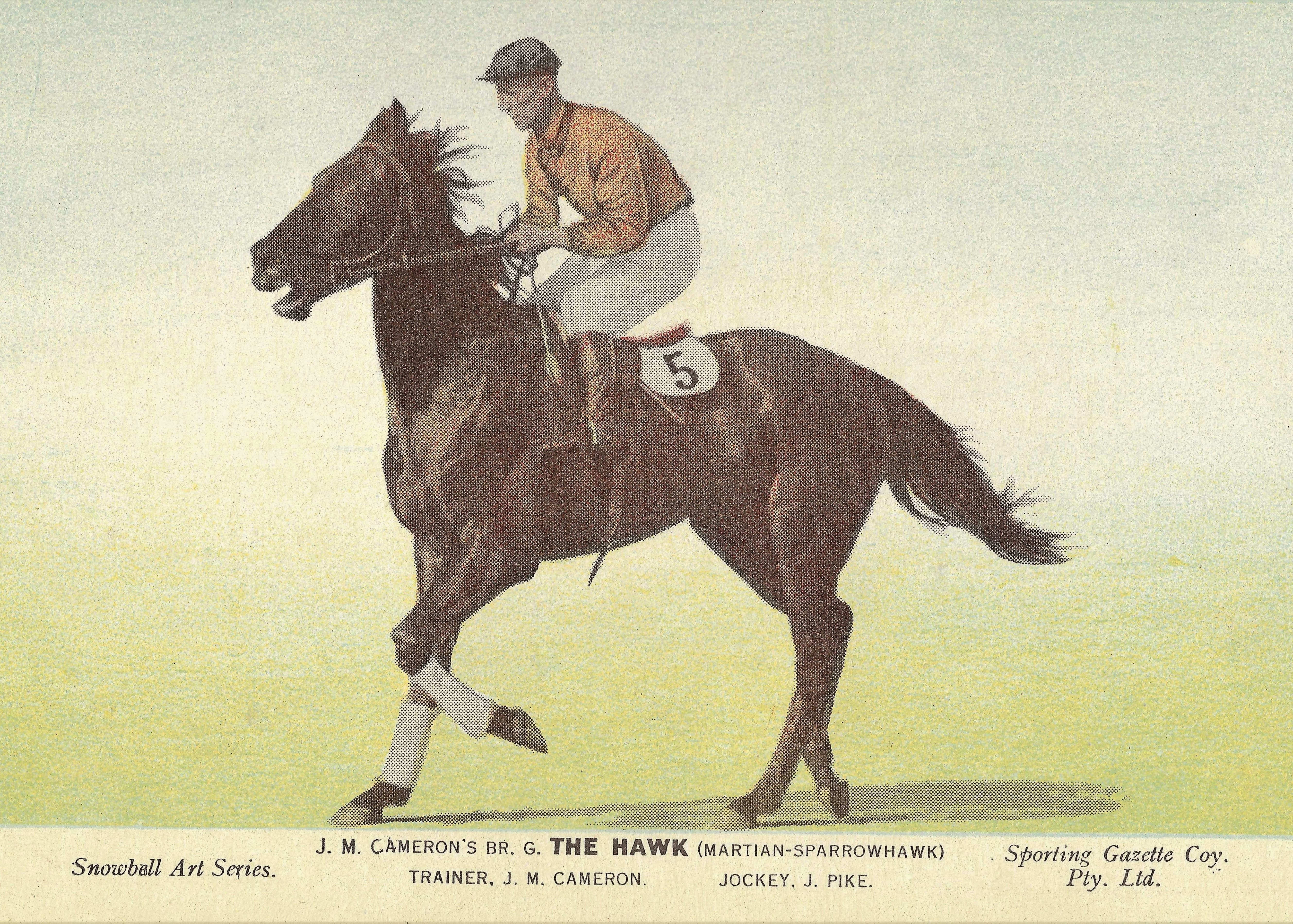 THE HAWK JOCKEY JIM PIKE